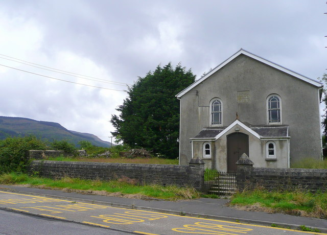 Bethel Chapel, Mount Road, Cefn Rhigos The hillside of Cefn Crug can be seen in the distance to the south-west.